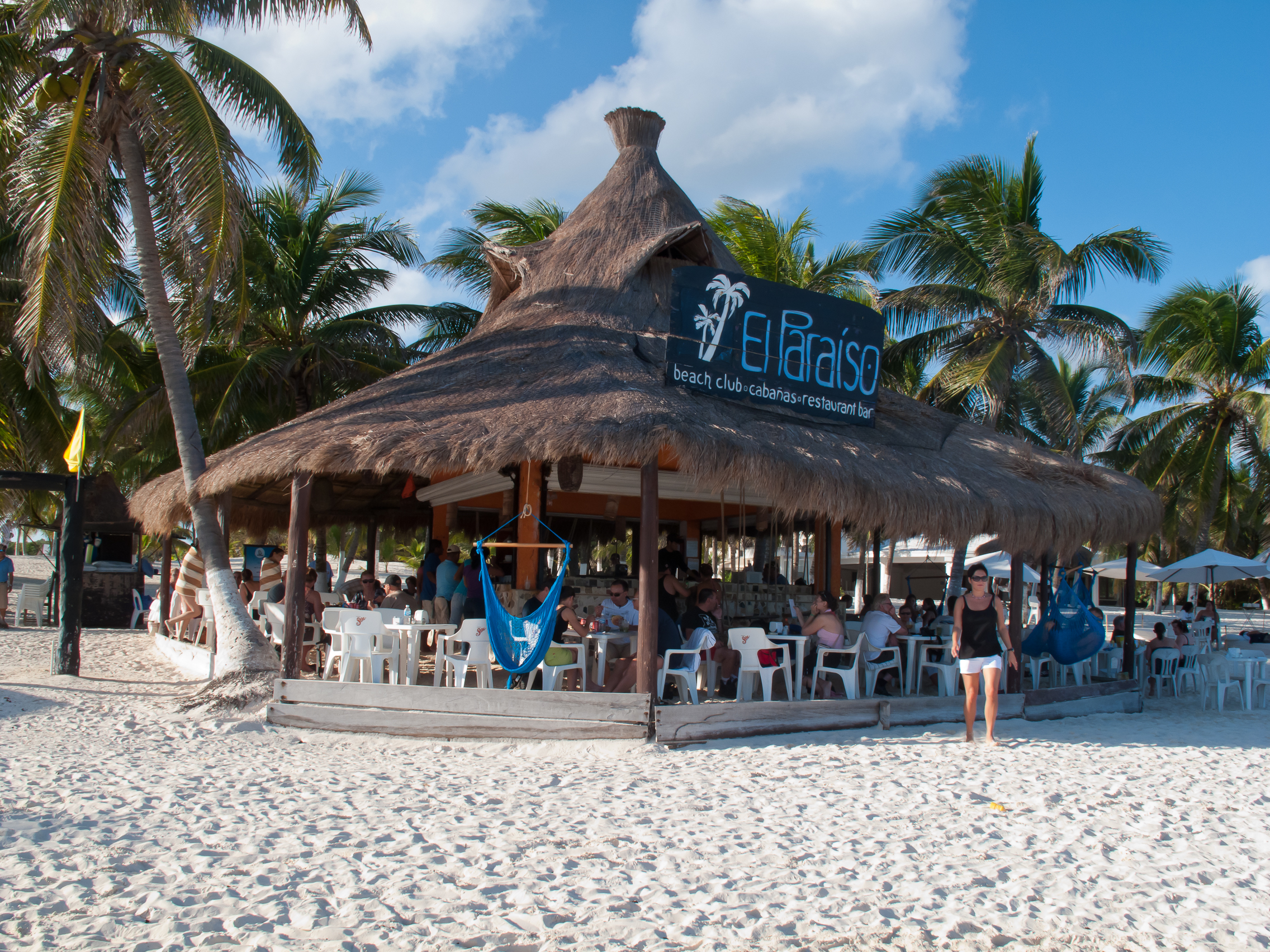 Paraiso Beach, Quintana Roo, Mexico